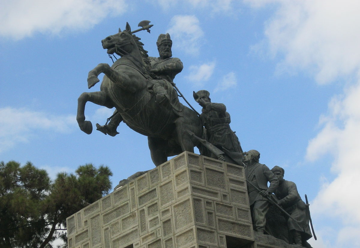 Nader Shah Afshar tomb